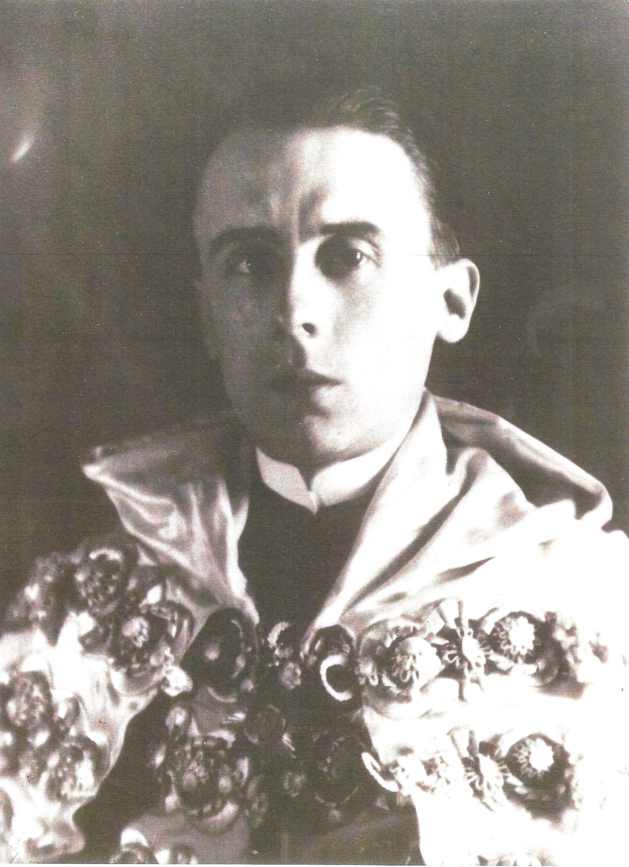 Portuguese Scientist